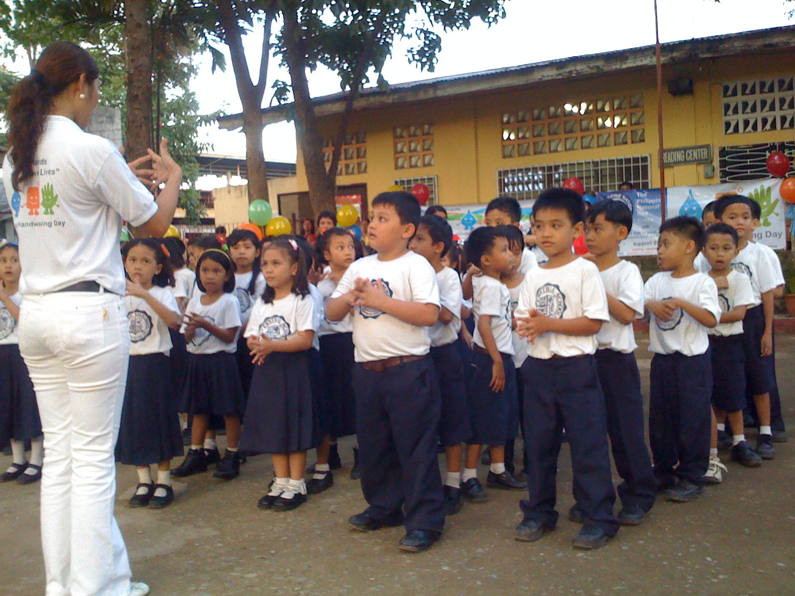 picture taken during Global Handwashing Day 2008 activities and the simultaneous launching of the Essential Health Care Package (EHCP) for Philipino Children (includes handwashing, tooth brushing and twice a year deworming) . photo provided by Robert Gensch